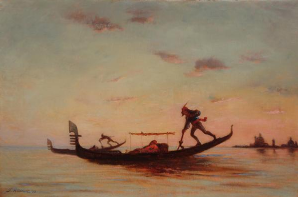 Artist: Smith, Frank Hill. American (1842-1904) Title: Gondoliers, Venice Media: oil on canvas. Dimensions: 17 X 25 1/2 inches. "Description: Signed and dated lower left: "F Hillsmith "73". Label on frame verso: "Subject Venice/Owner Mrs. John L. Gardner Jr./Date of loan April 26, '80/152 Beacon St". Also with label verso: "No. 21". ... Ex-collection Isabella Stuart Gardner. Exhibited: Museum of Fine Arts, Boston, circa 1880."-- Childs Gallery